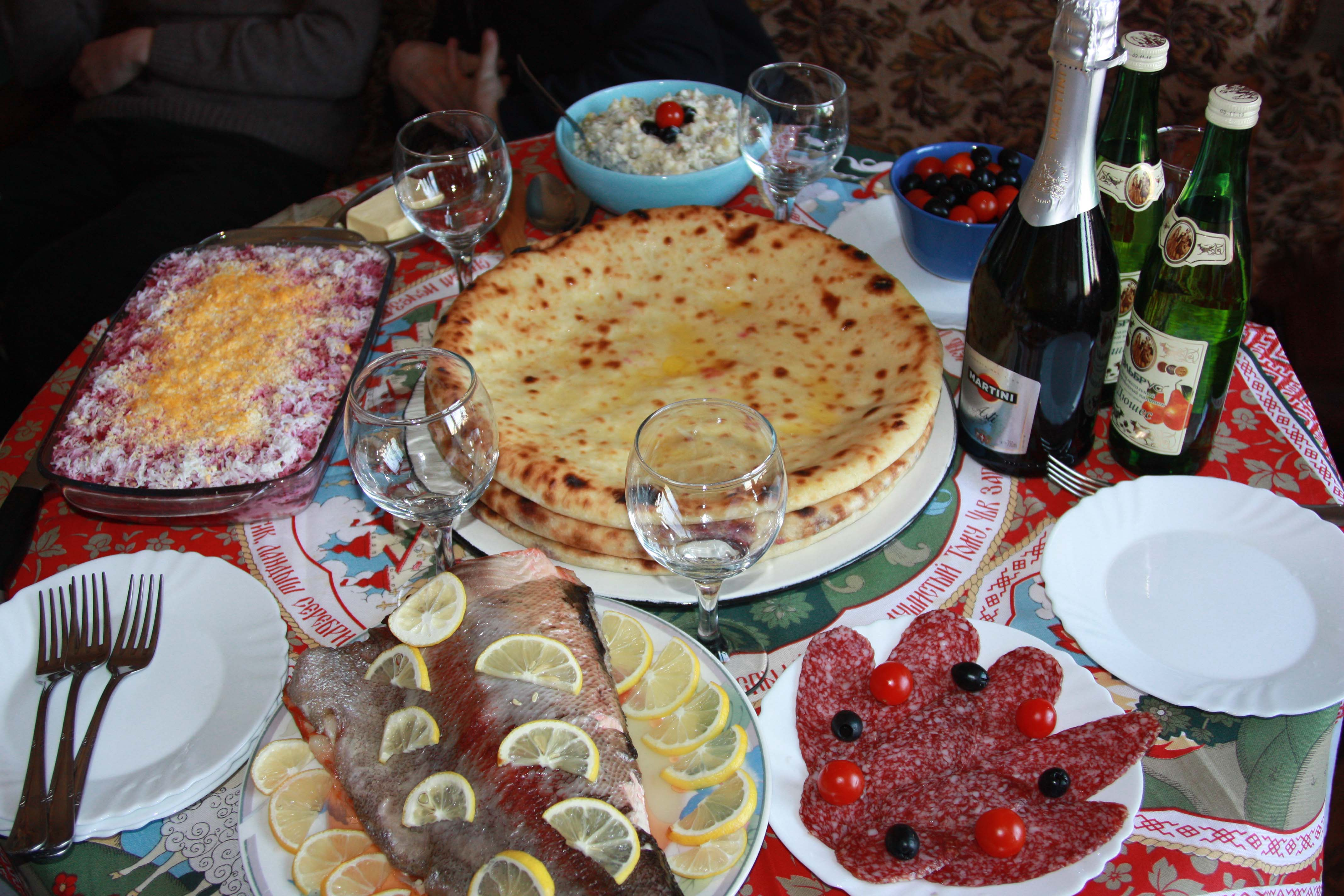 Ossetian pirogi are put in the center of festive table